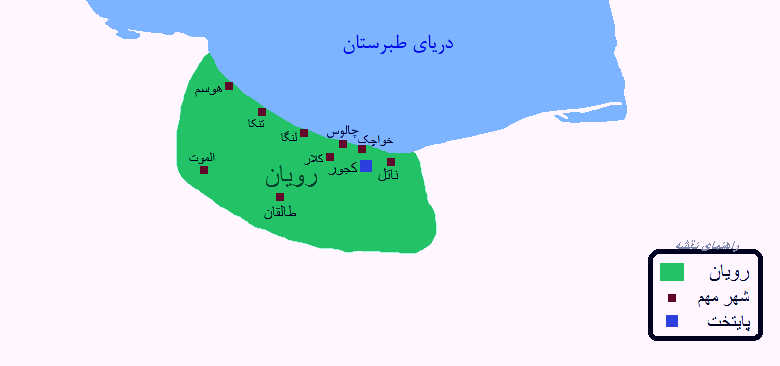 Ruyan is Mazandaran Province